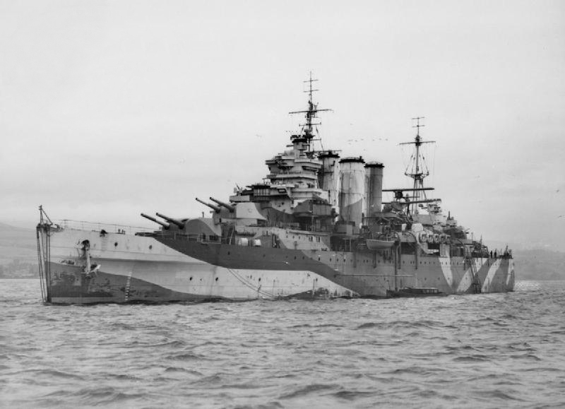 British heavy cruiser HMS SUSSEX at anchor in the Clyde.